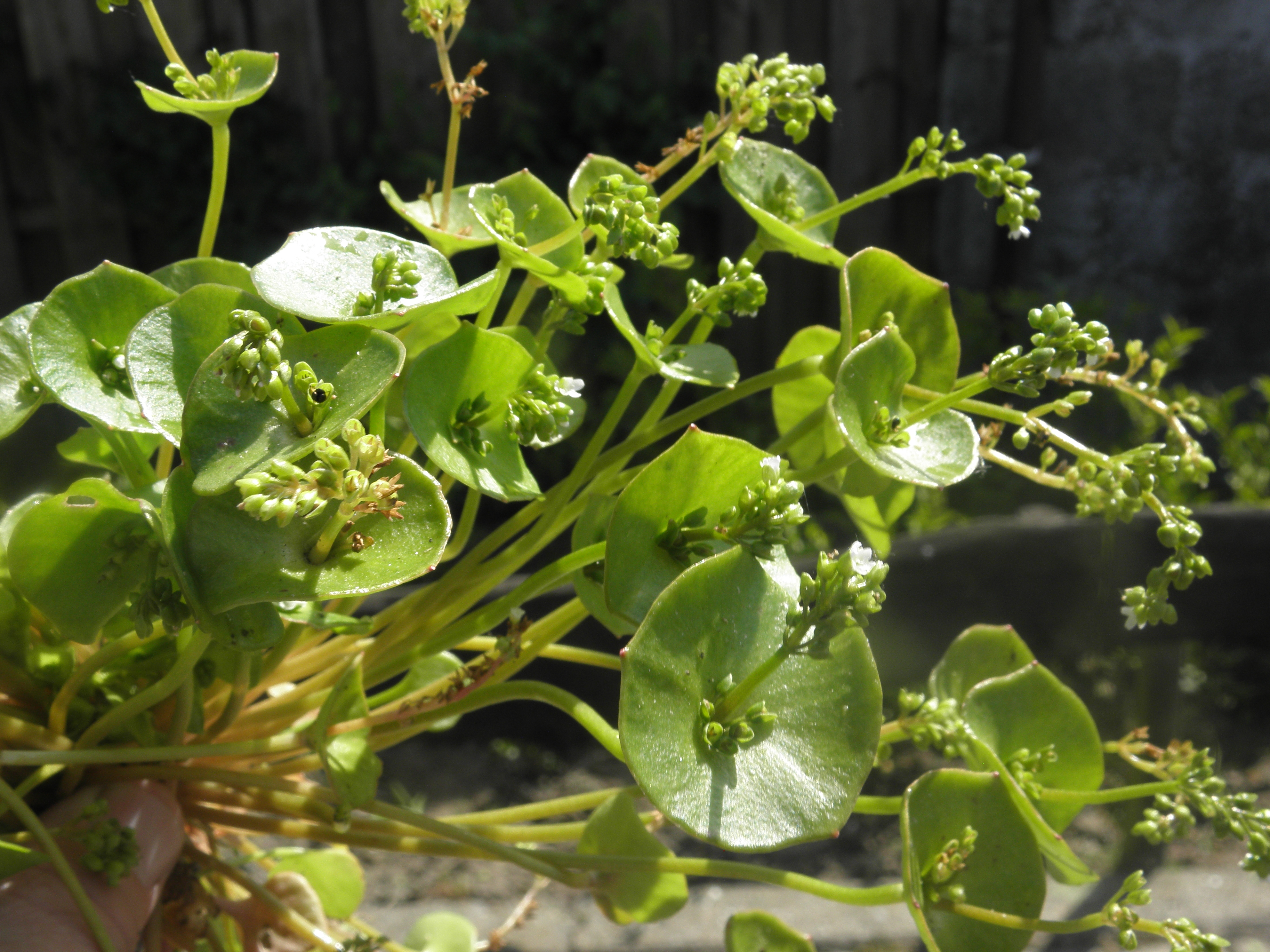 spring beauty